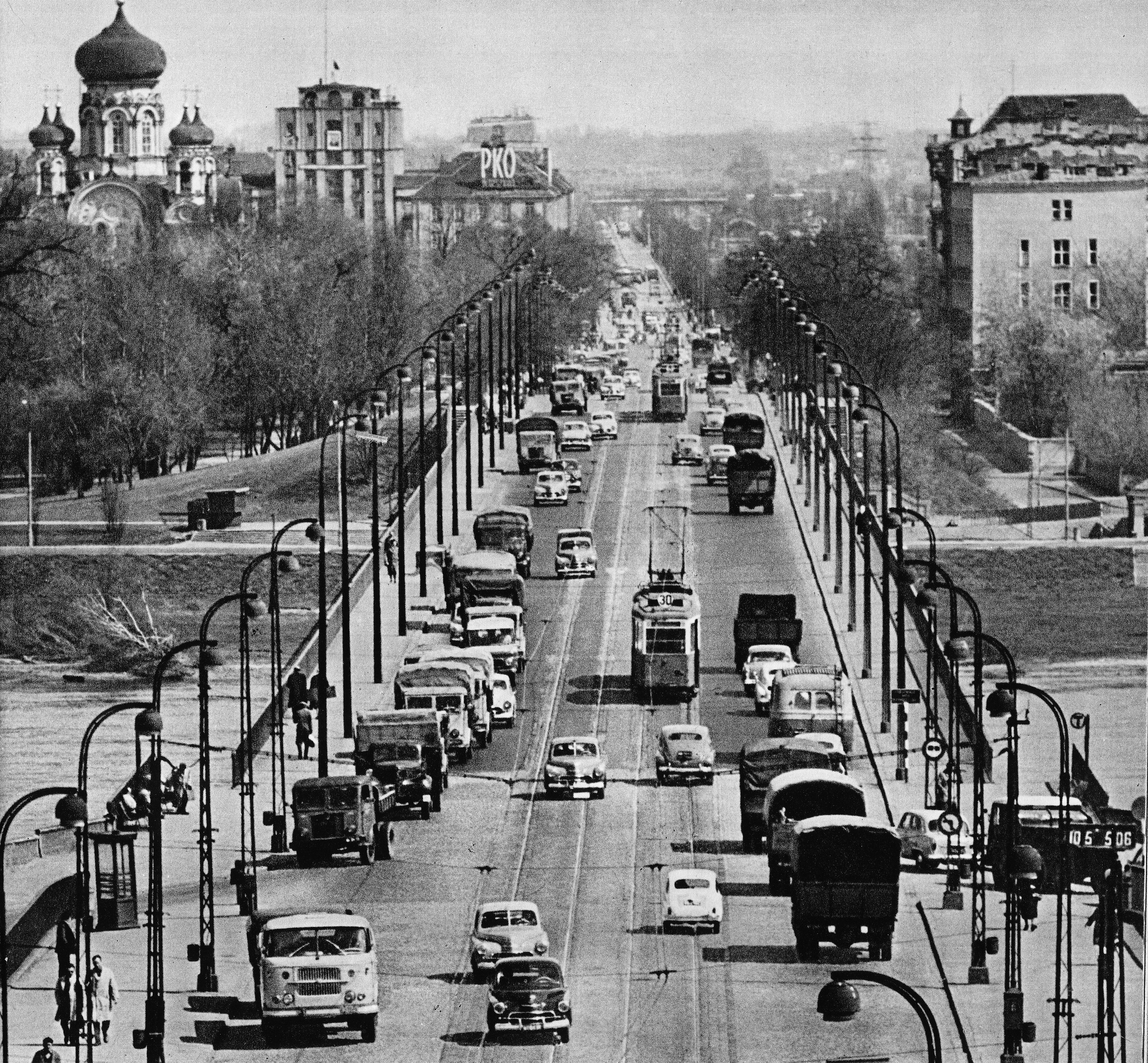 W-Z Thoroughfare in Praga district